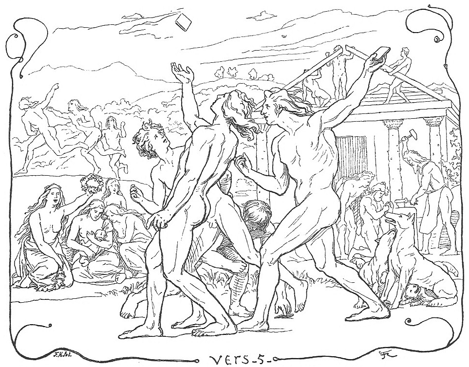 The gods merrily build and play games, as described in the early stanzas of Völuspá.